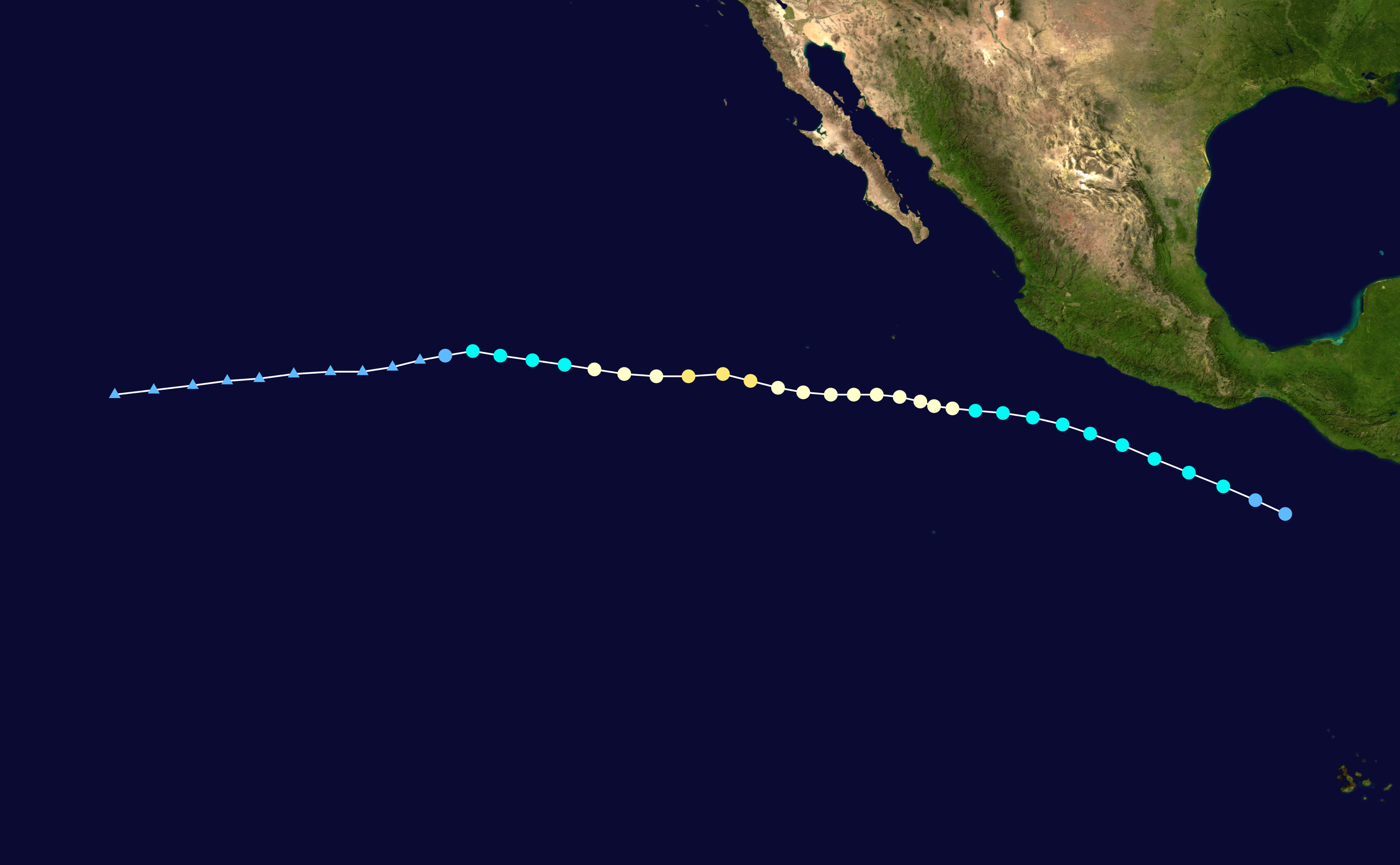 Track map of Hurricane Elida of the 2008 Pacific hurricane season. The points show the location of the storm at 6-hour intervals. The colour represents the storm's maximum sustained wind speeds as classified in the Saffir–Simpson scale (see below), and the shape of the data points represent the nature of the storm, according to the legend below. Saffir–Simpson scale Tropical depression≤38 mph≤62 km/h Category 3111–129 mph178–208 km/h Tropical storm39–73 mph63–118 km/h Category 4130–156 mph209–251 km/h Category 174–95 mph119–153 km/h Category 5≥157 mph≥252 km/h Category 296–110 mph154–177 km/h Unknown Storm type Tropical cyclone Subtropical cyclone Extratropical cyclone / Remnant low / Tropical disturbance / Monsoon depression